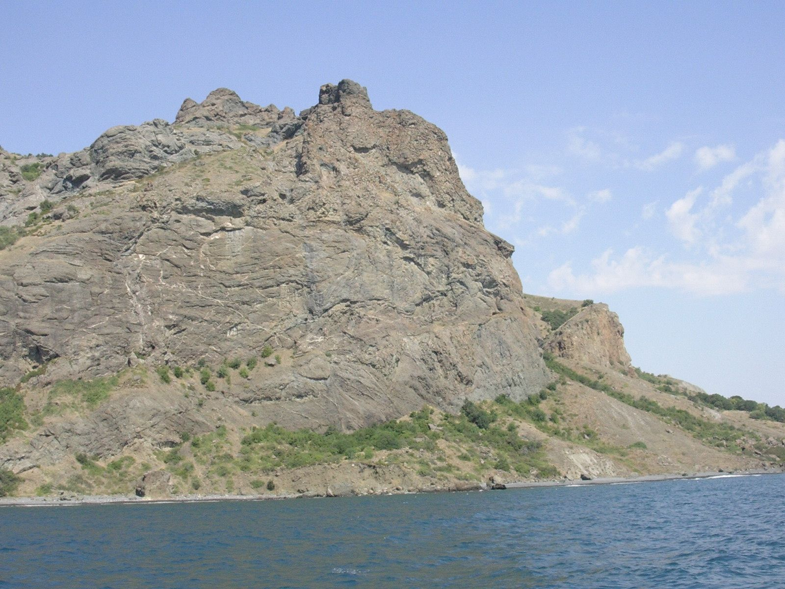 Mount Karadah near Koktebel, Karadah looks like M.Voloshin's face, Crimea